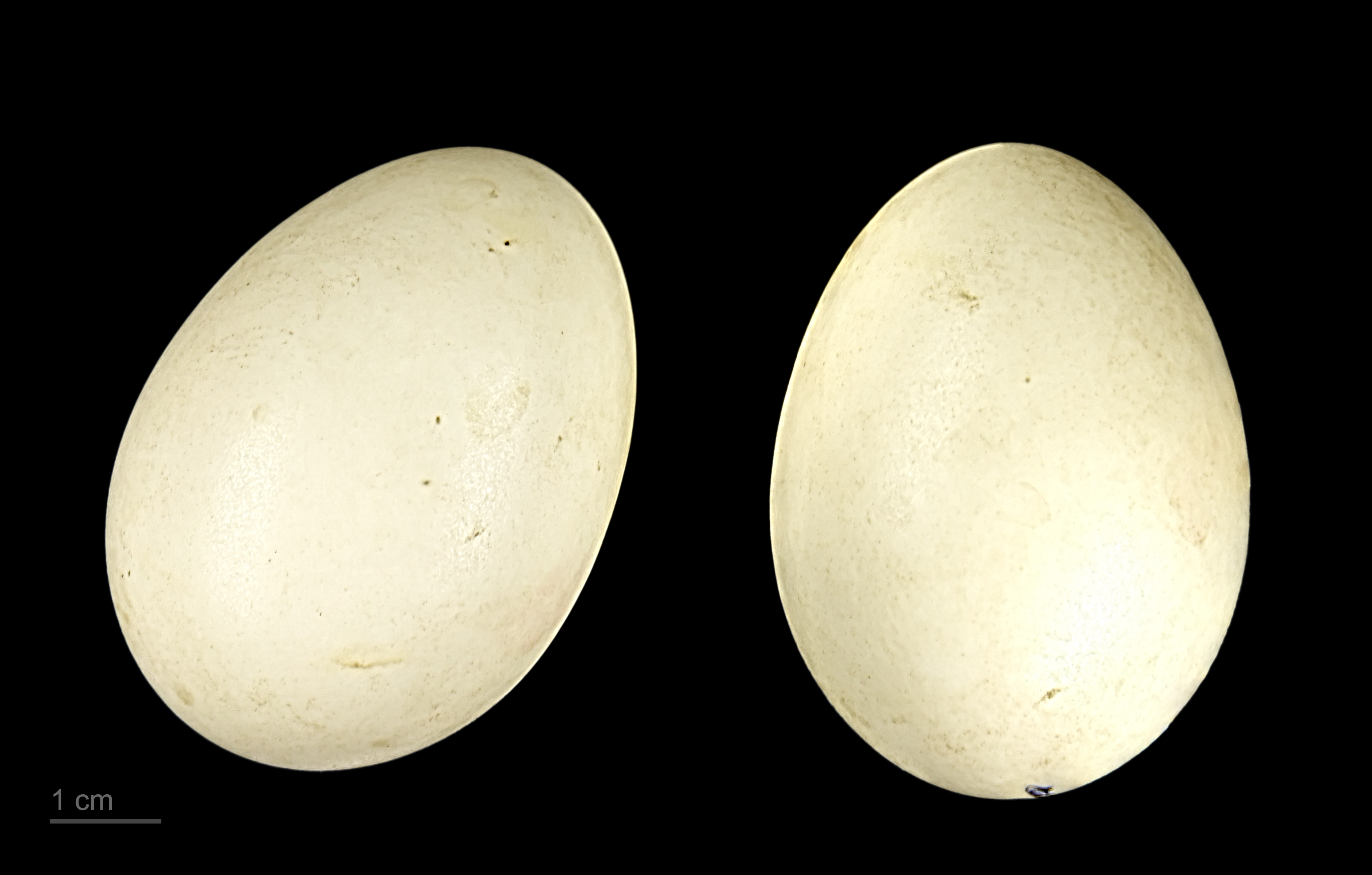 Eggs of wood duck Two specimens of the same spawn ; collection of Jacques Perrin de Brichambaut.